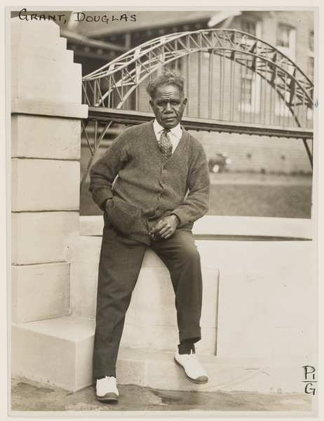 Portrait of Douglas Grant, draughtsman and soldier (WWI), with his ornamental pond and Sydney Harbour Bridge model, Callan Park, between 1932-1940.